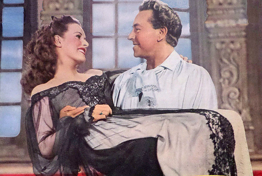 Photo from an advertisement for the 1945 film The Spanish Main. Pictured are Maureen O’Hara and Paul Henreid.